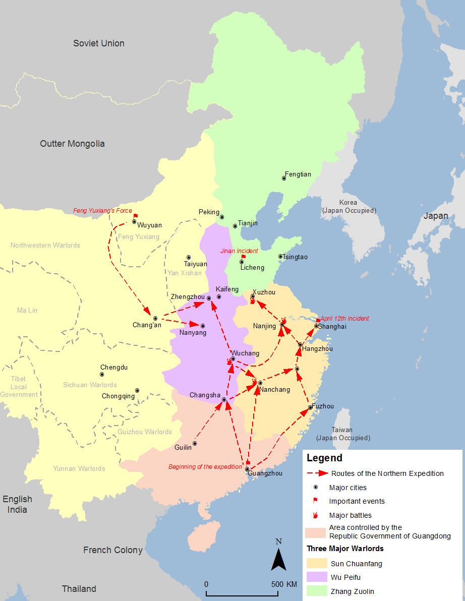 Map of the Northern Expedition, the military campaign launched by the Kuomintang against the northern warlords from the Beiyang government between 1926 and 1928. 中文（中国大陆）: 国民革命军北伐战争，第一次国共合作，示意地图